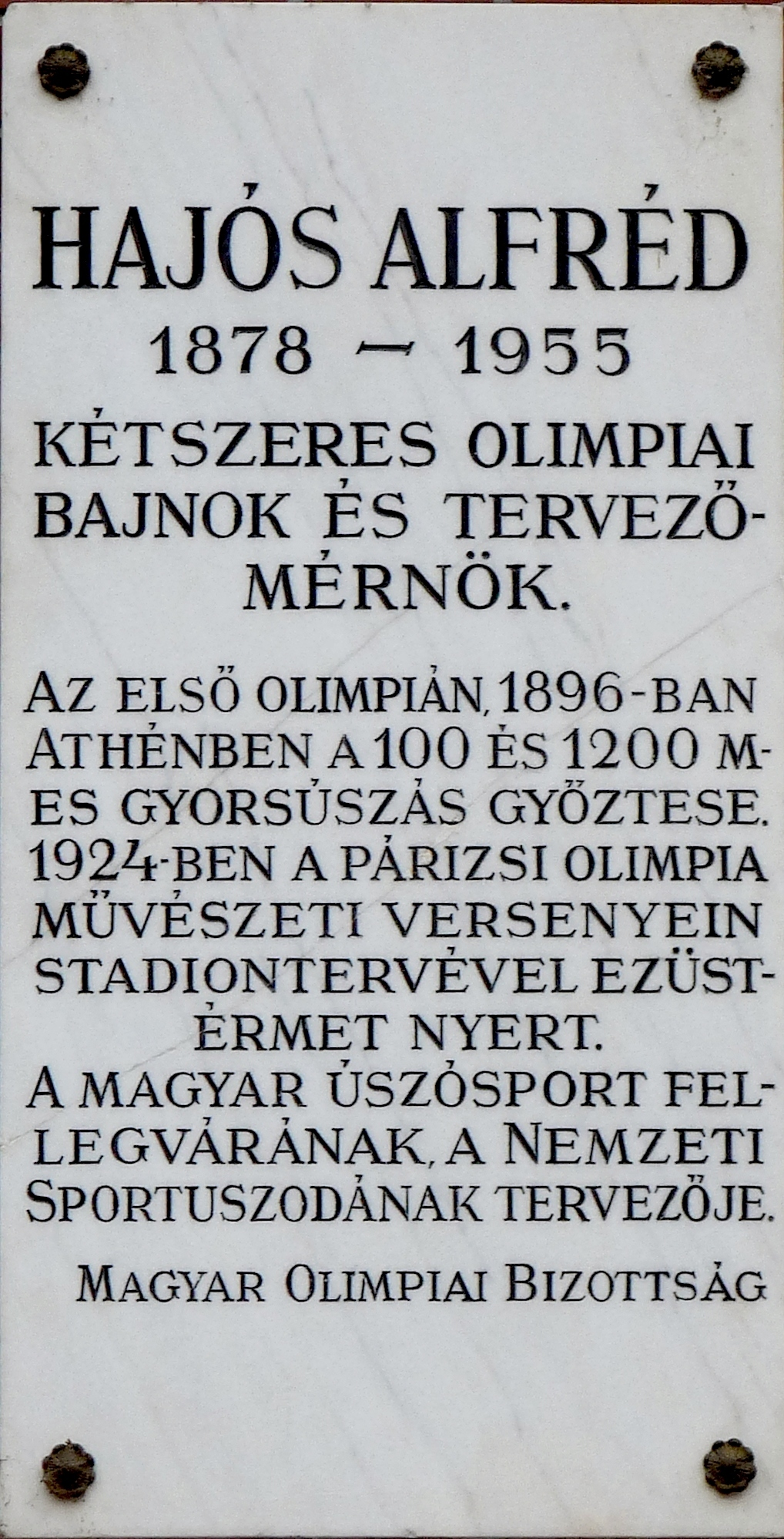 Commemorative plaque to Hungarian swimmer and architect Mr. Alfréd Hajós (1878-1955) placed on the front of the National Swimming Pool bearing his name. He was the first Olympic champion of Hungary. (Margaret Island, National Swimming Pool, Budapest, District XIII)